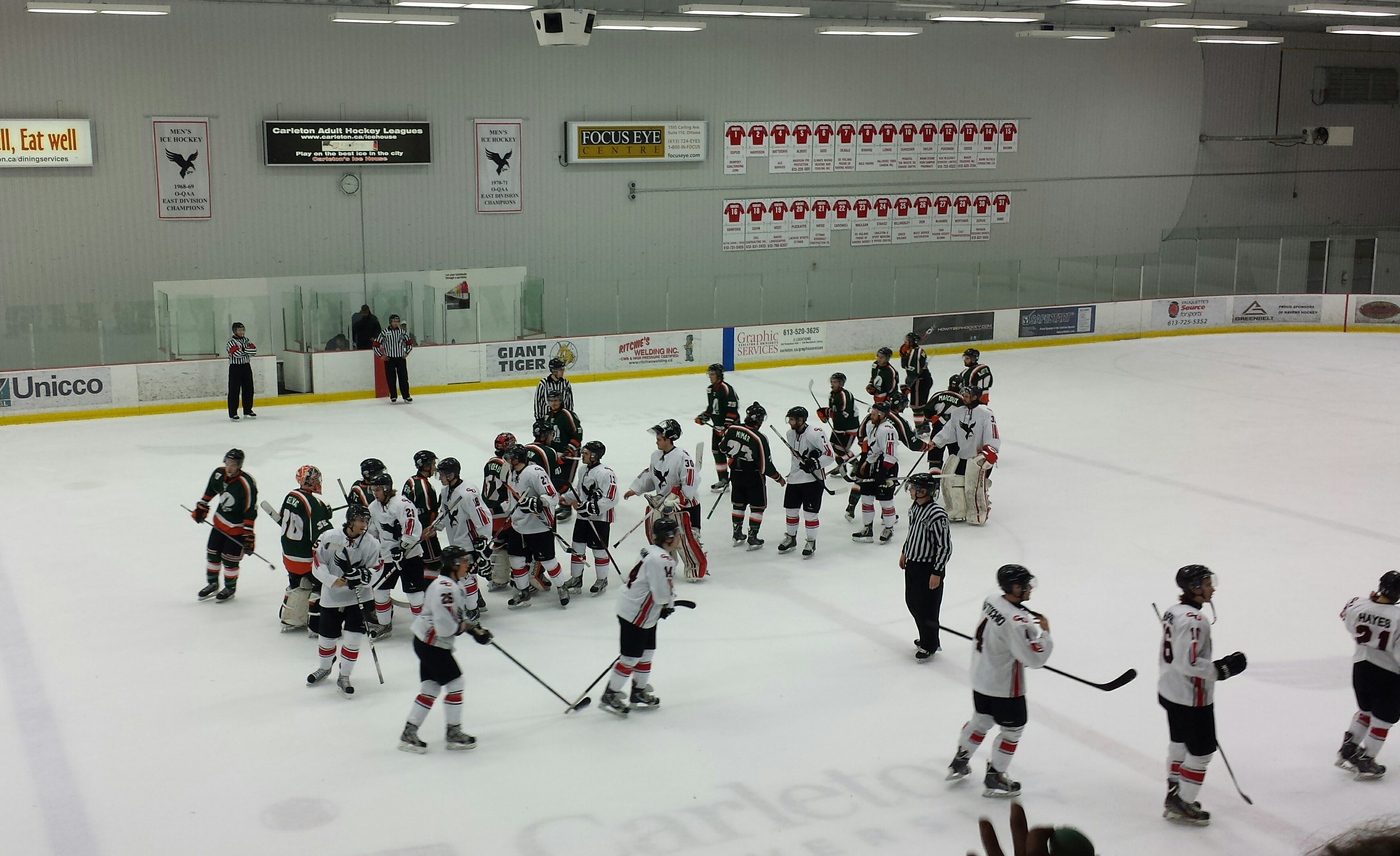 Shake hands after the hockey match UQTR (Green) @ Carleton (White)